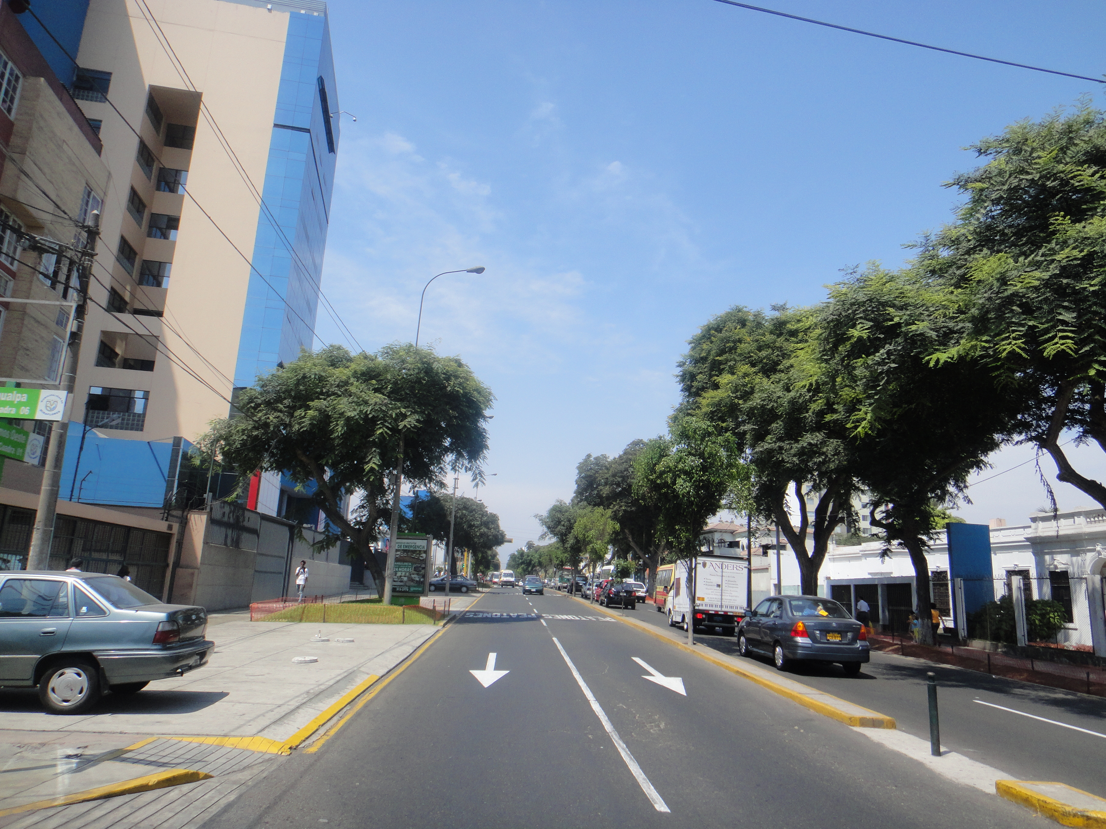 Angamos Ave. in Miraflores District, Lima-Peru.